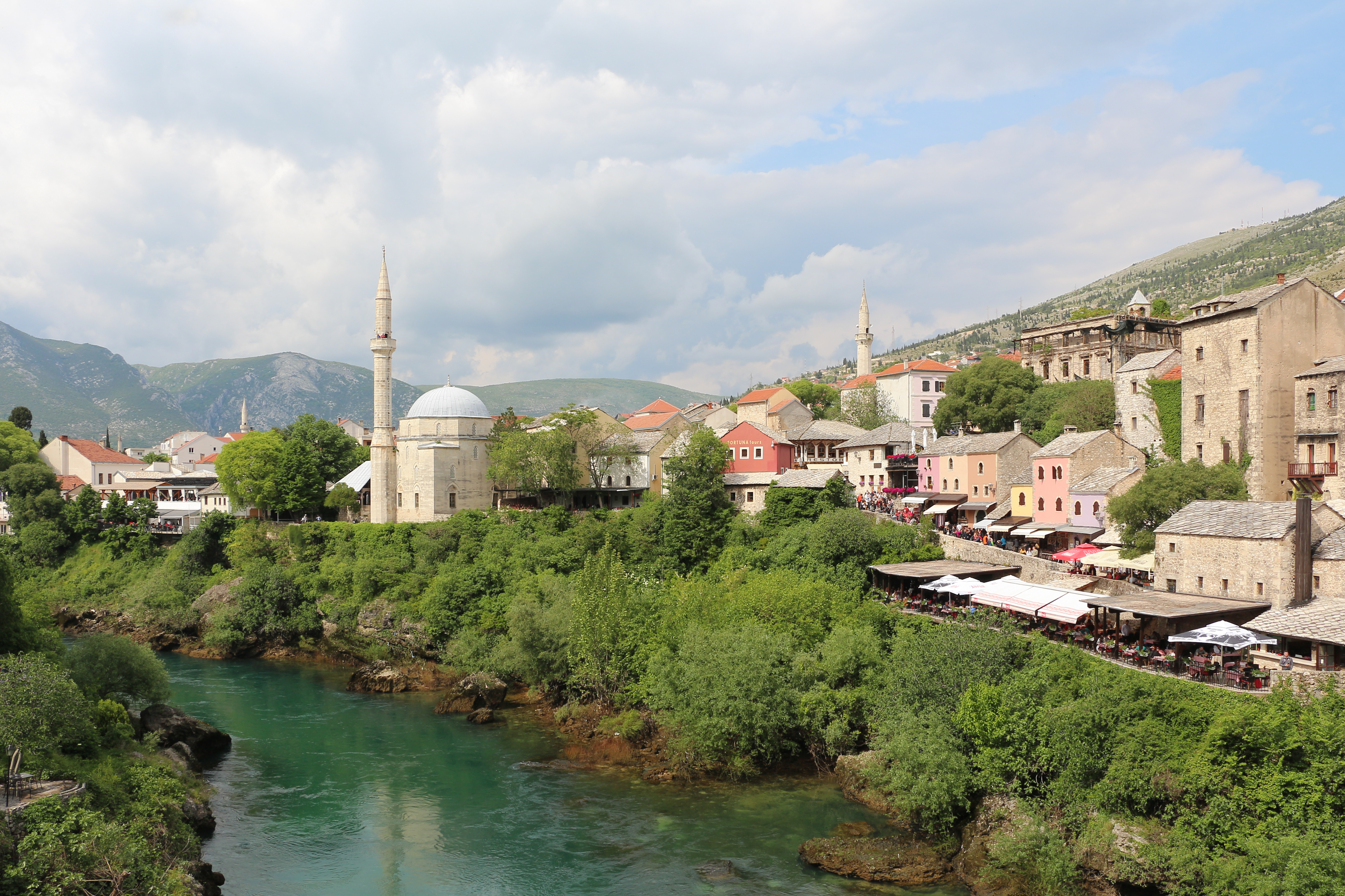 View of Mostar from Stari Most, Bosnia and Herzegovina